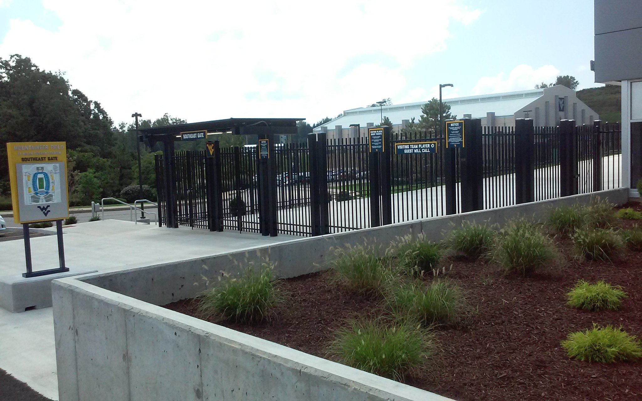 The new Southeast Gate at Milan Puskar Stadium.